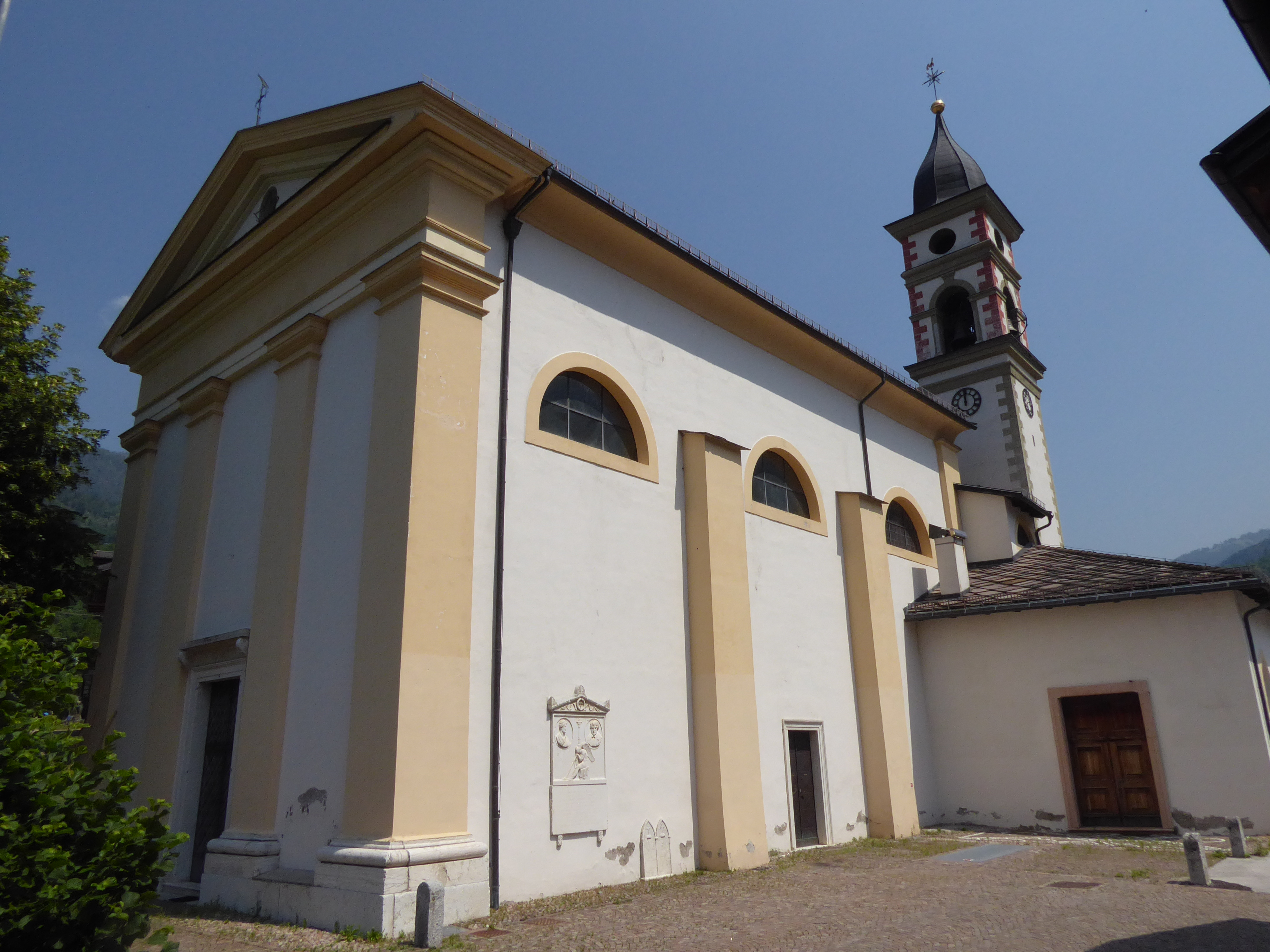 Canezza (Pergine Valsugana, Trentino, Italy) - Saint Roch church